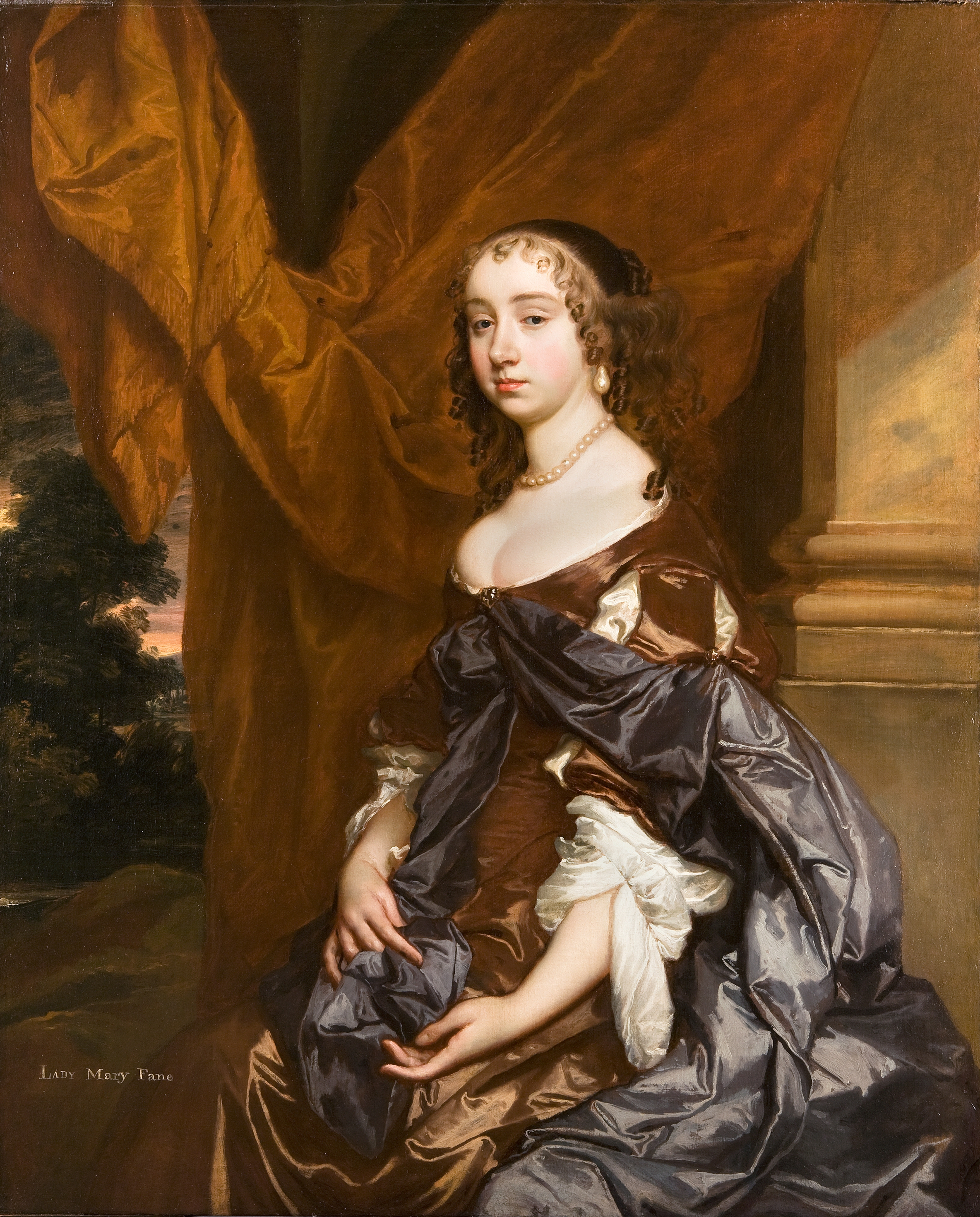 Lady Mary Fane (Mrs. Francis Palmes, later Countess of Exeter). seated, three quarter length